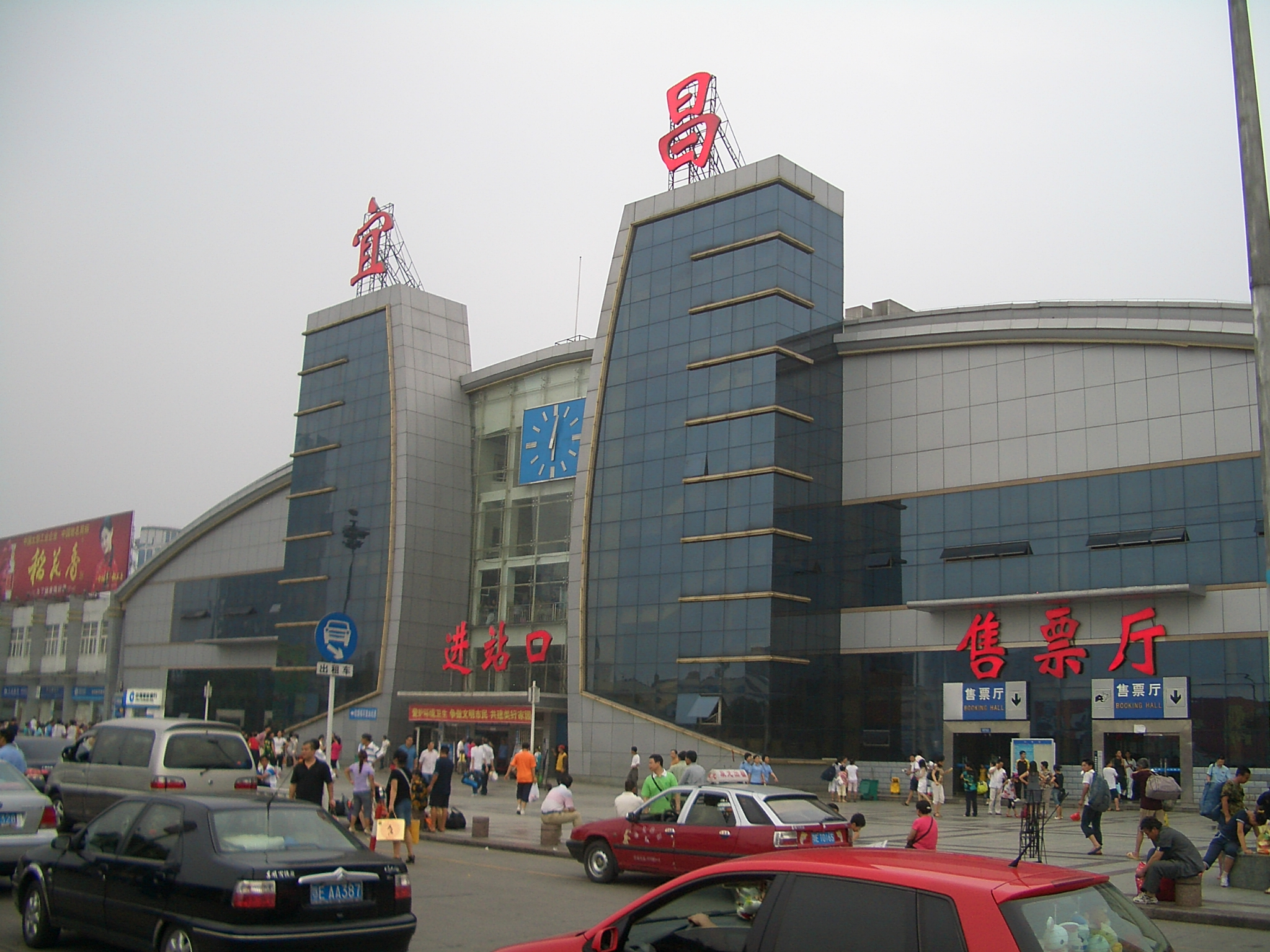 The facade of the Yichang Railway Station